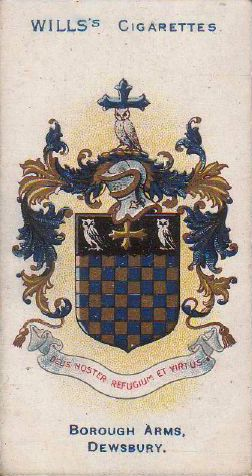 Pre-1914 cigarette card showing Dewsbury coat of arms, printed by Wills tobacco company. This coat of arms was incorporated into Kirklees coat of arms in 1974.